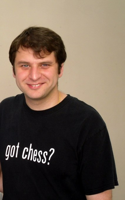 GM Yuri Shulman United States of America, Merida 2008.